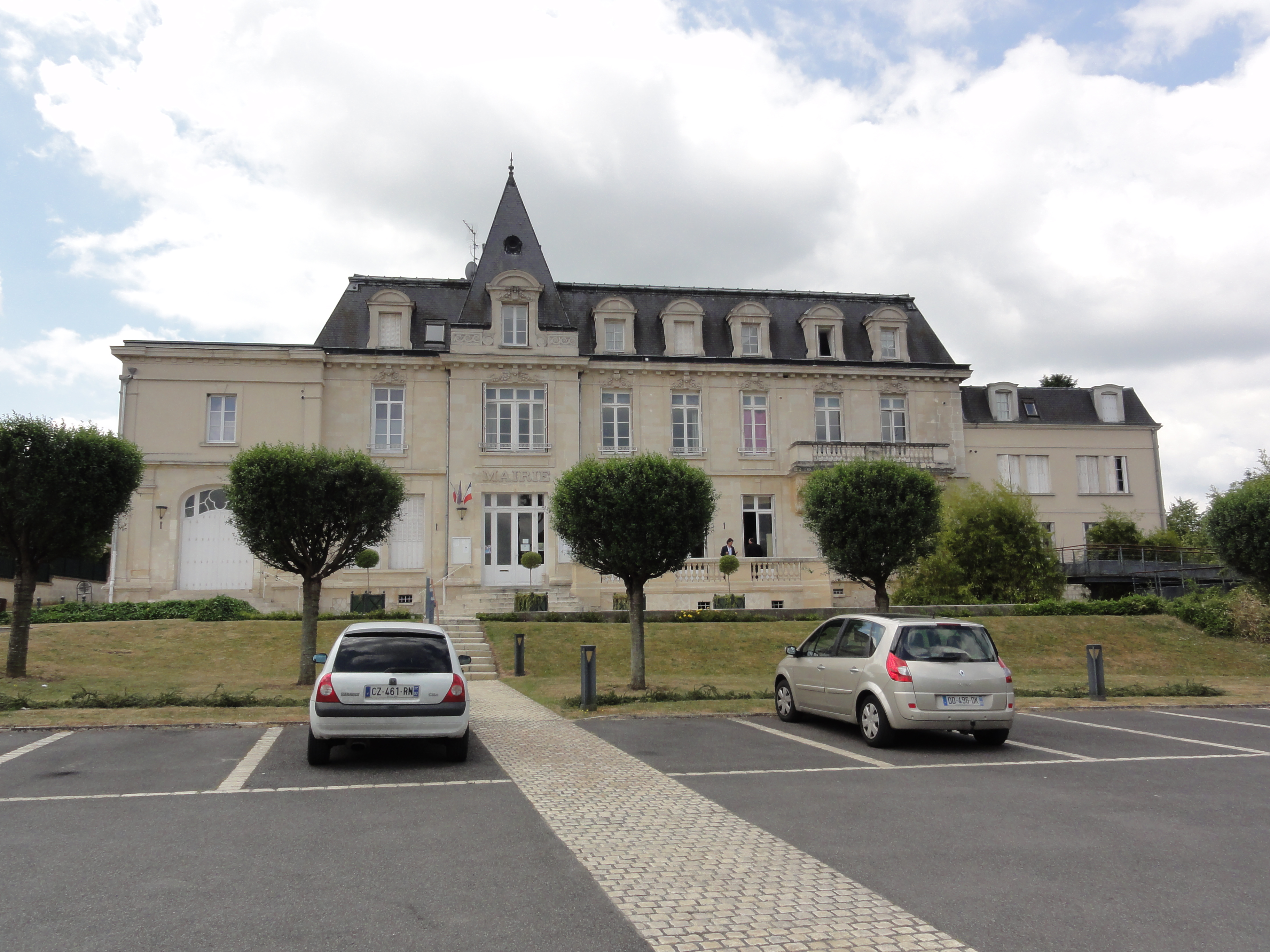 Mercin-et-Vaux (Aisne) mairie